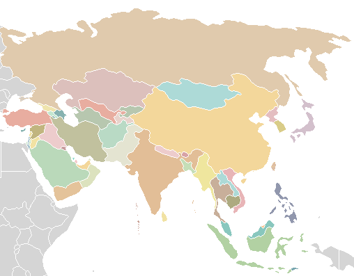 Political map of Asia.